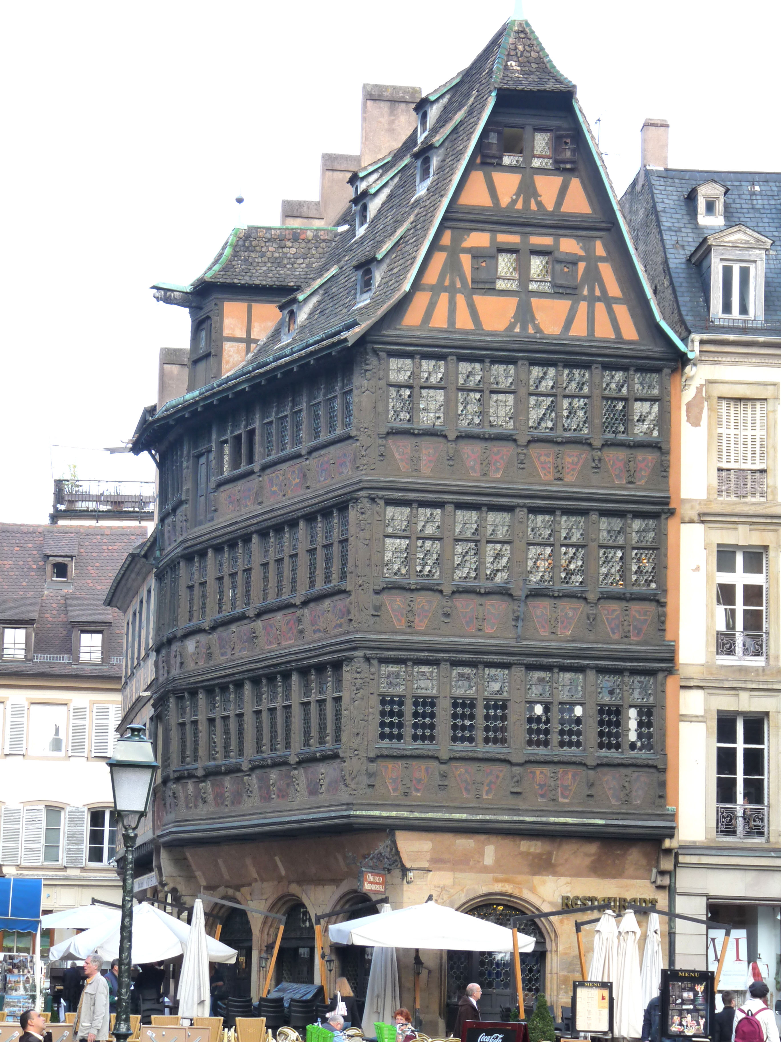 Strasbourg 05